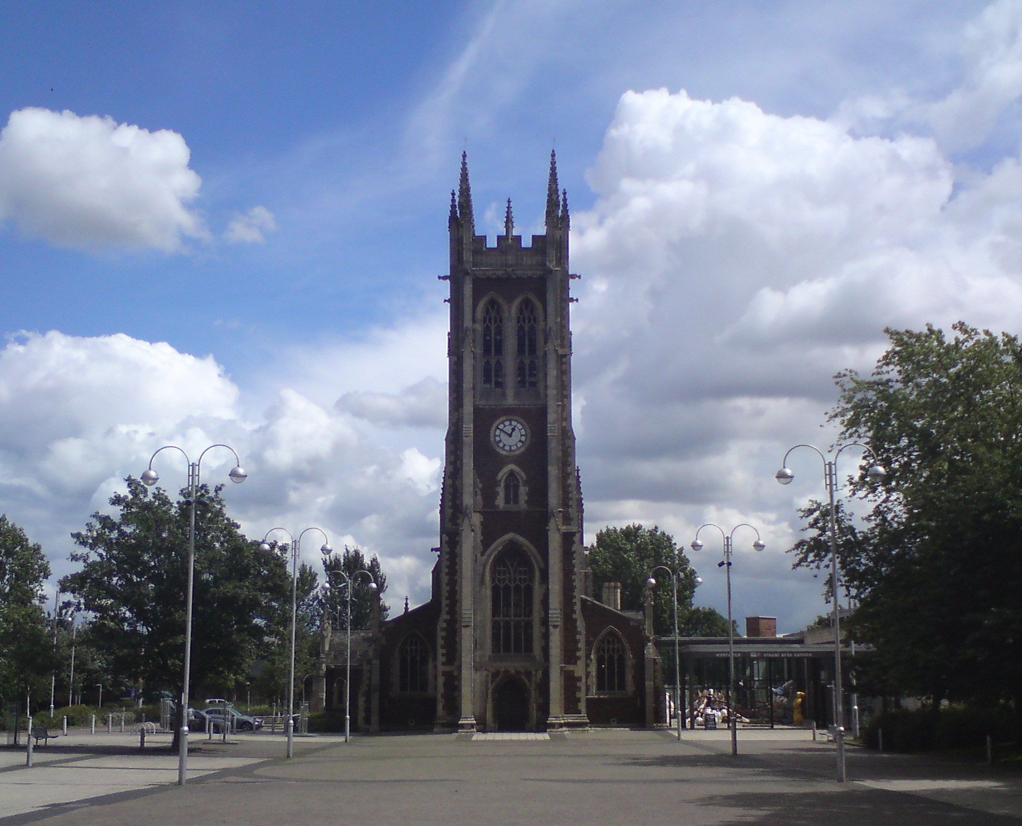 St John's Church, Scunthorpe